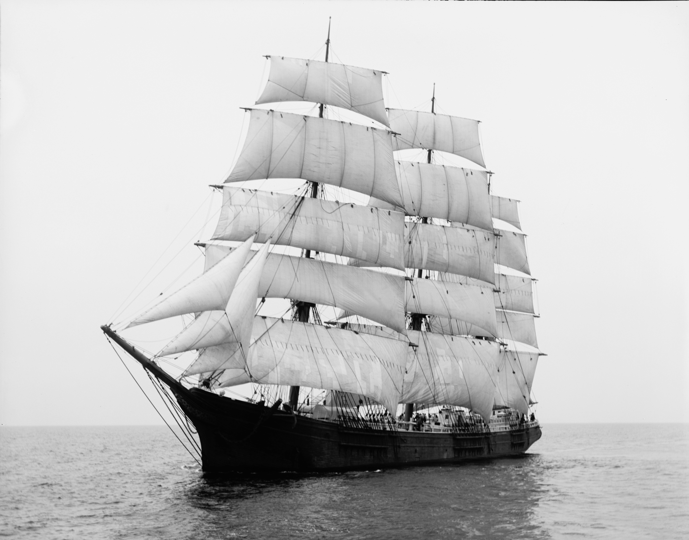 The fully rigged ship „Mary L. Cushing“, circa 1880.